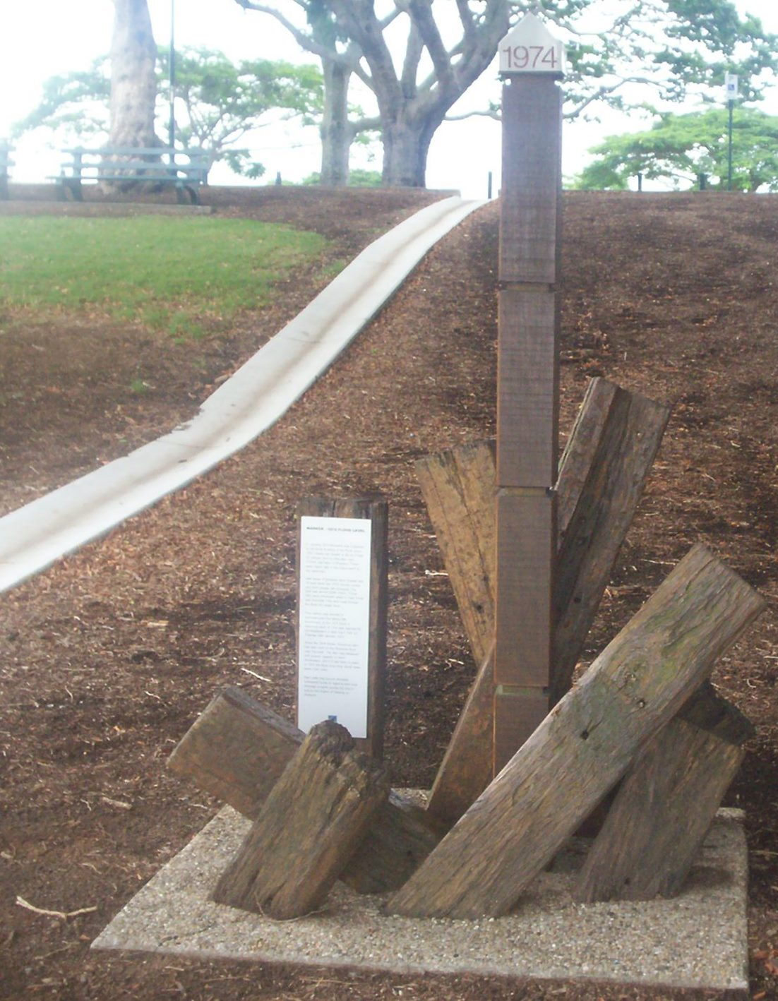 This photo is from the article Photoblogging Brisbane’s New Farm Park - 8 types of roses, sculptures and memorials, huge seed pods, silver gulls and private poetry at the Powerhouse You are free to use this photo for any reason, including commercial reasons, but you MUST include EITHER a link to or, (ONLY if you are not using it on the internet), you must print the URL next to or on the photo. If you do NOT provide this credit, in this way, you will be using the photo ILLEGALLY. If you do use the correct credit, you don't have to contact me for permission - but if you can let me know where you are using it, that would be cool.